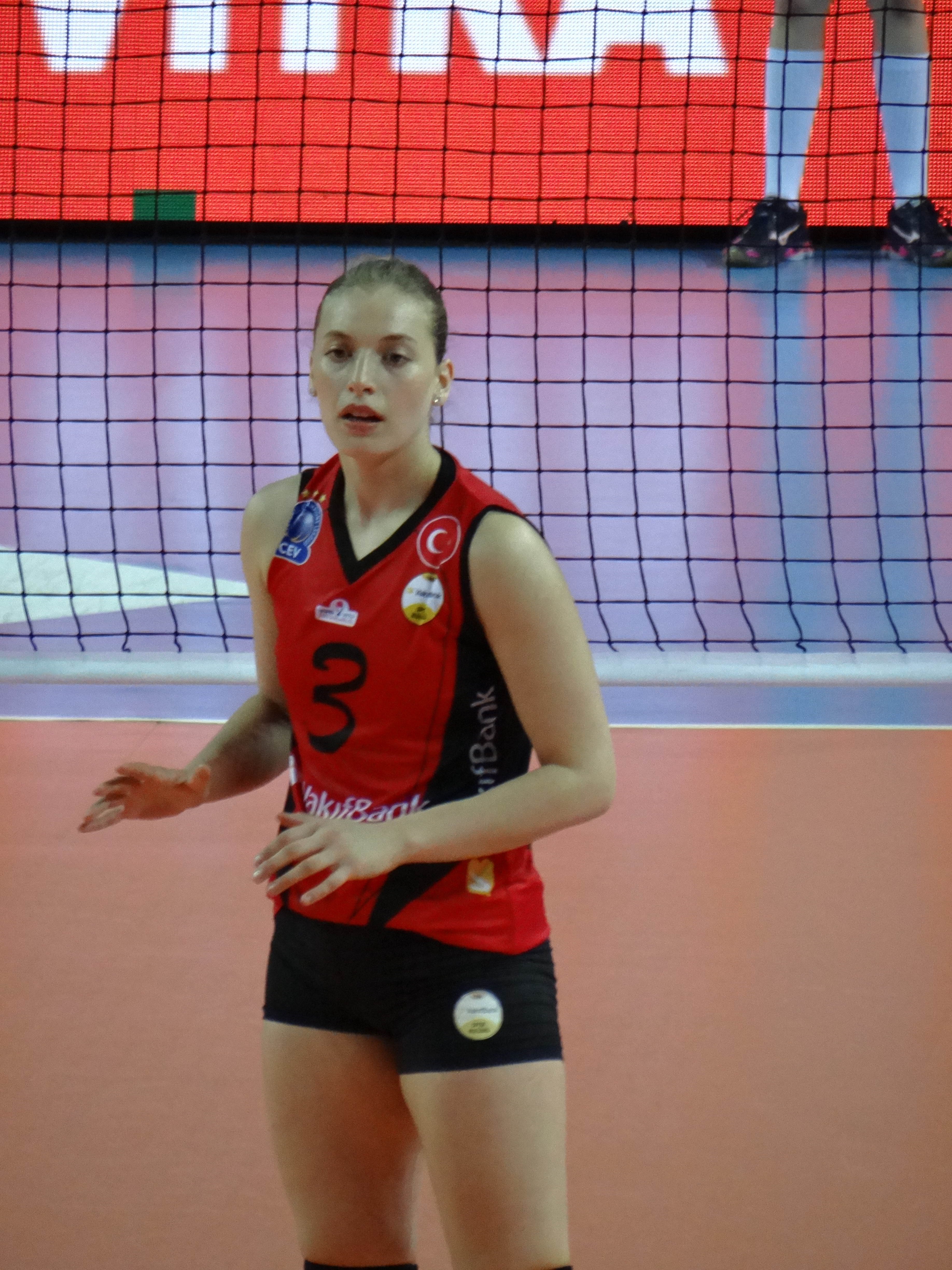 Cansu Özbay 3 Vakıfbank SK TWVL 20180426